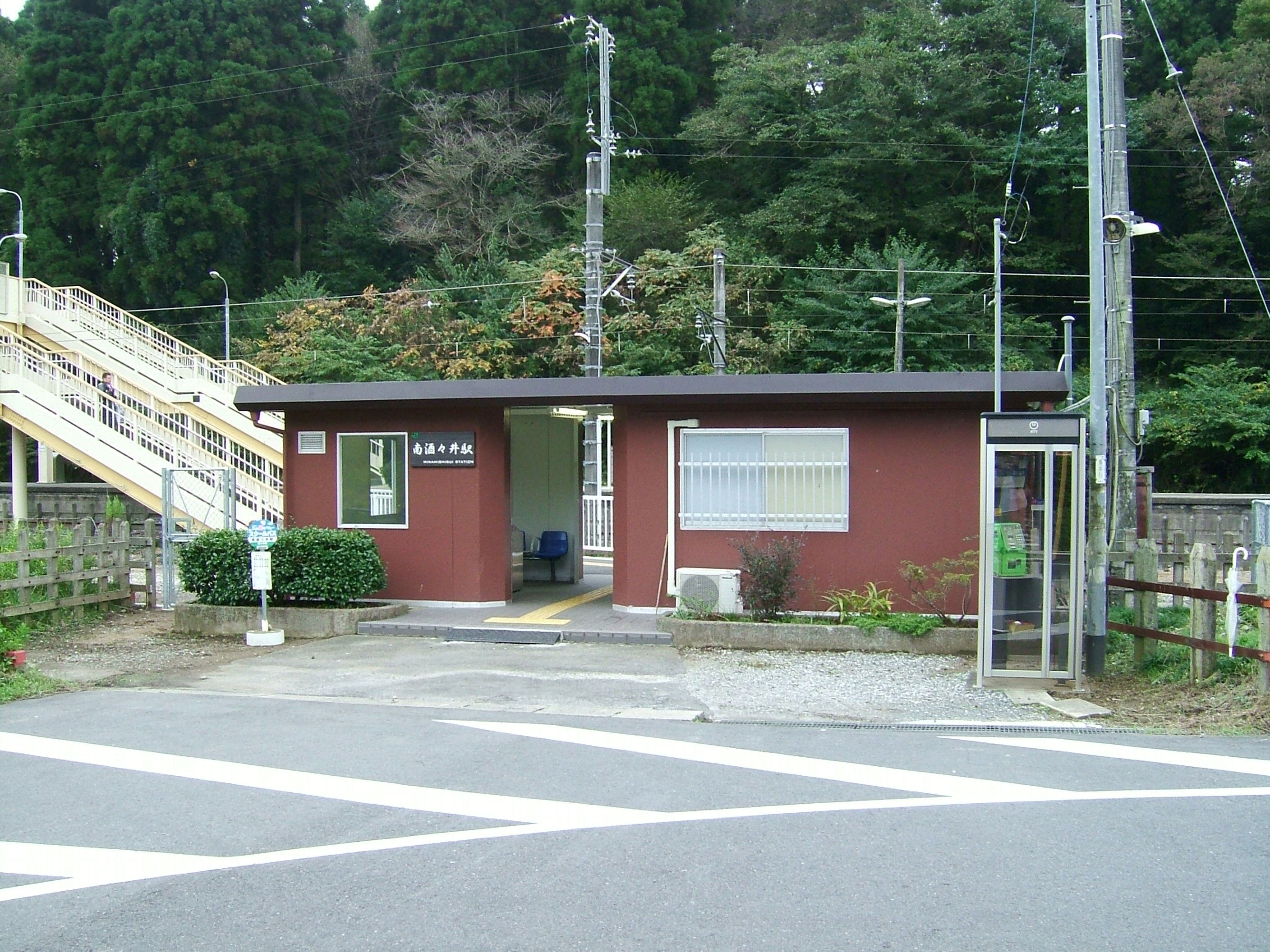 Minami-Shisui Station building (East Japan Railway Sōbu Main Line)